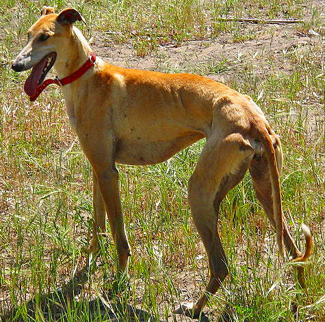 Spanish Galgo or Spanish greyhound female.